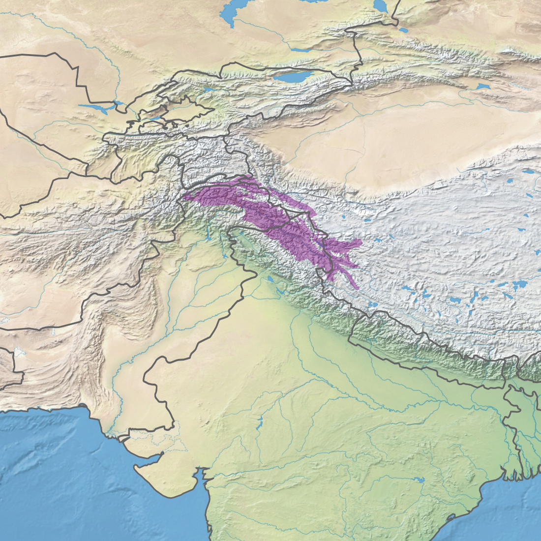 WWF Ecoregion PA1006 - Karakoram-WestTibetan Plateau alpine steppe